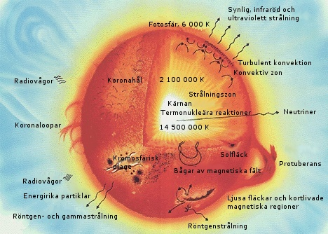 Swedish text version of the Suns interior. Original by NASA, edited by me.